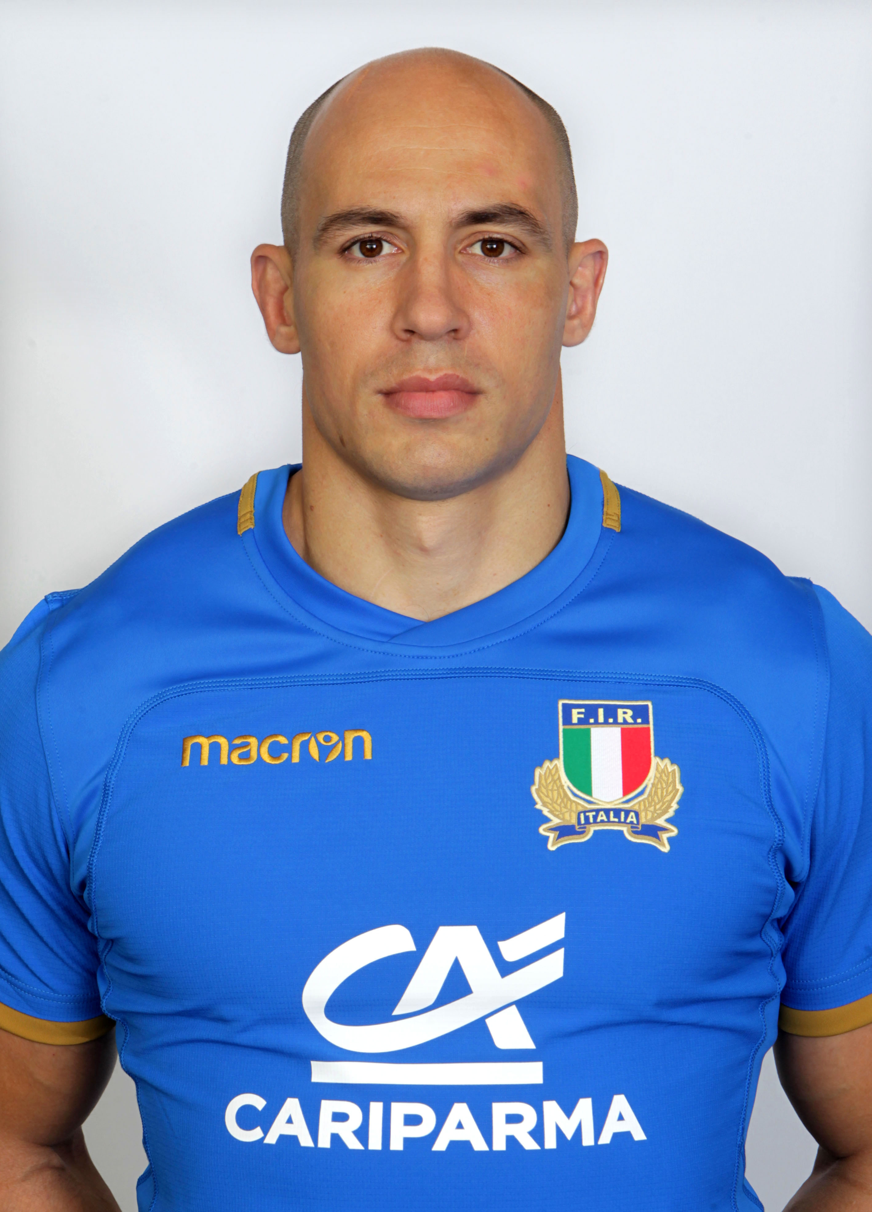 Cariparma Test match 2017, Parma 22/10/2017, raduno Nazionale italiana, profili individuali di atleti e staff, Sergio PARISSE, n.8 (Stade Français, 126 caps), capitano.